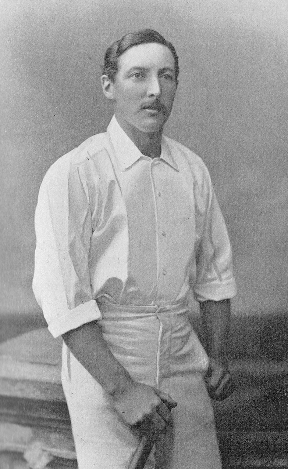 "J. Shuter"